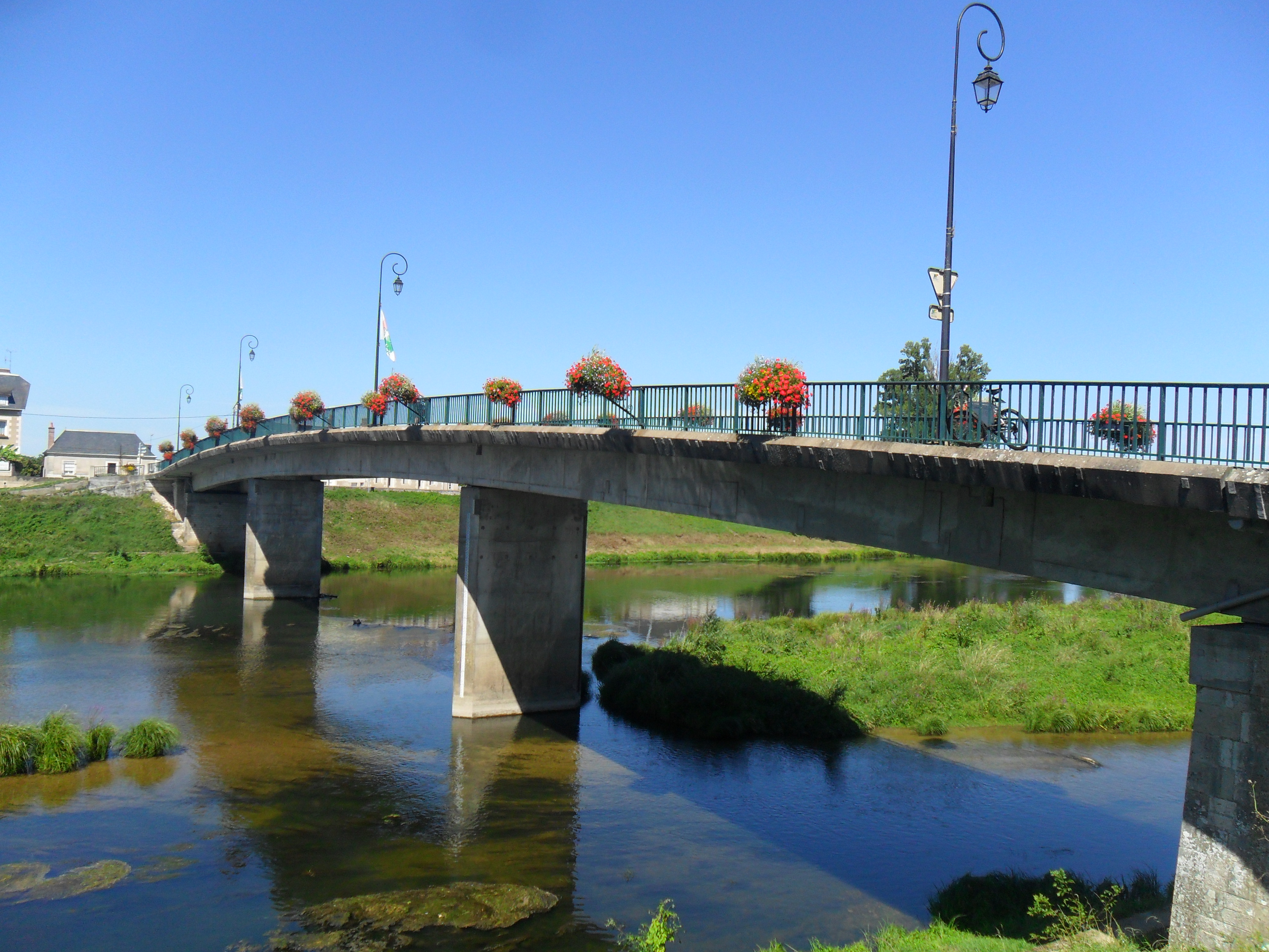 A bridge in Savonnières, France, on Cher River